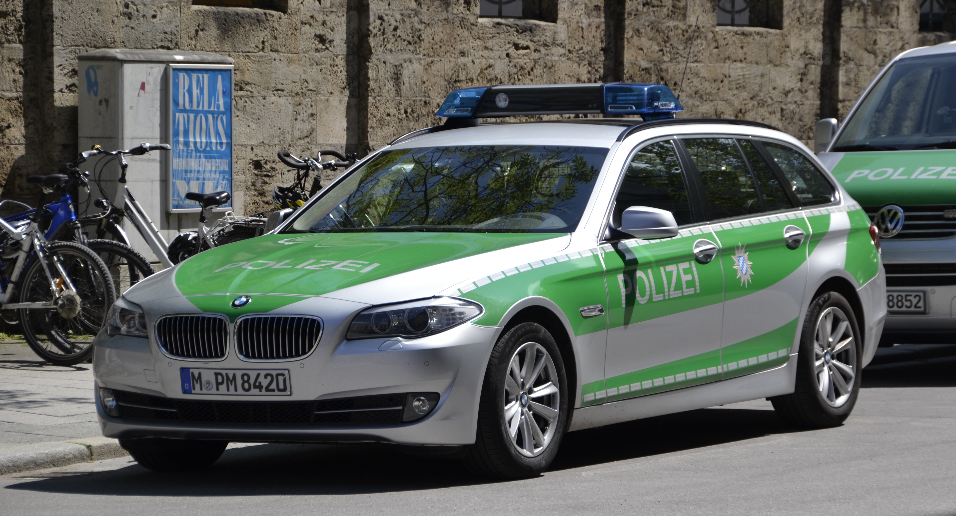 Bavarian State Police car of BMW.